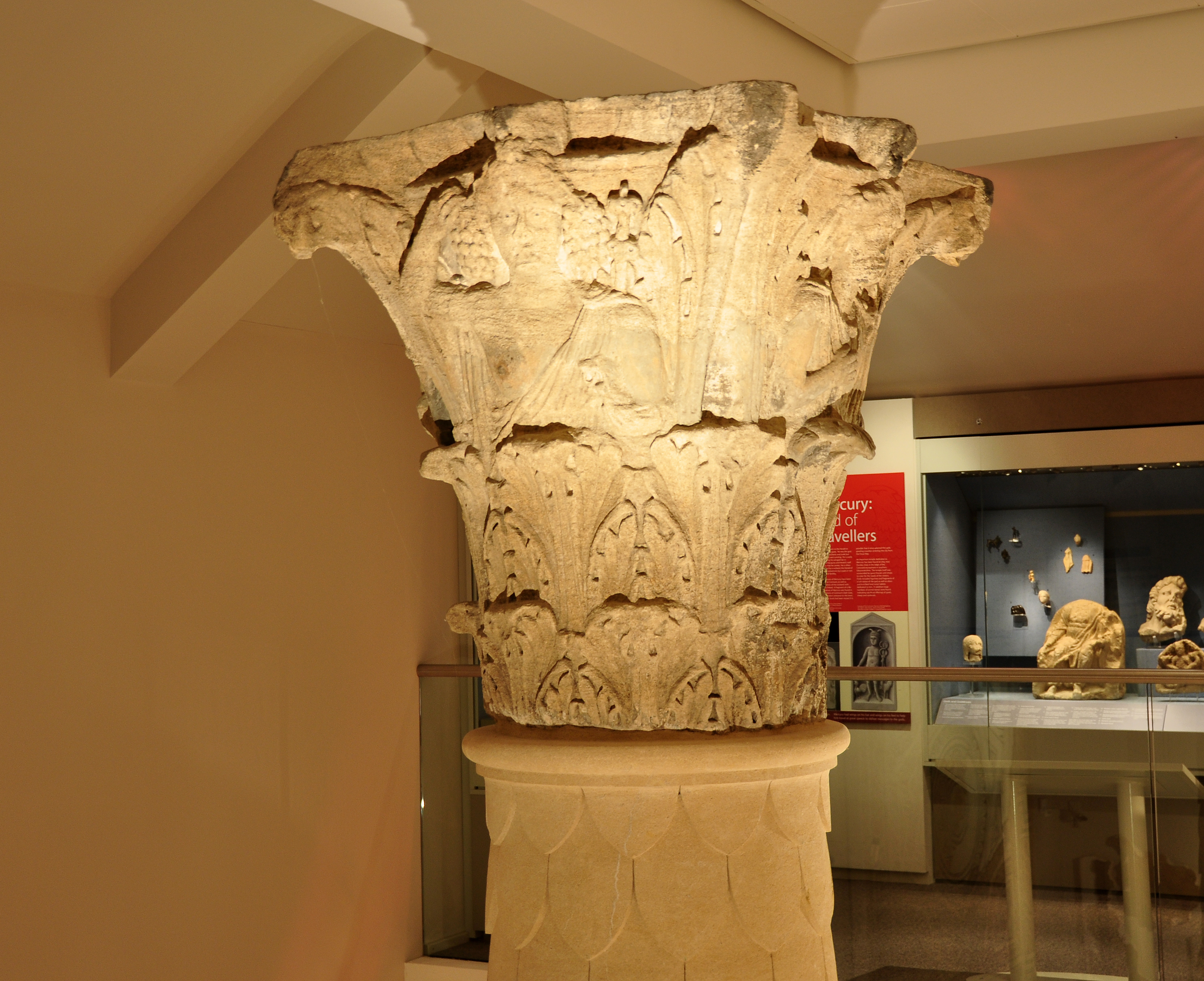 A column head in the Corinium Museum in Cirencester, Gloucestershire.